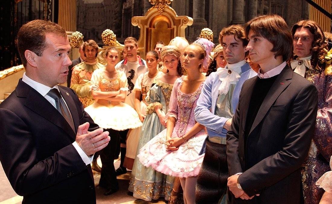 Dmitry Medvedev visiting the Bolshoi Theatre on 20 September 2011. (From source page: "Visit to Bolshoi Theatre. Talk with ballet dancers.")